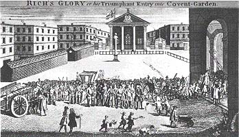 John Rich taking possession of Covent Garden Theatre in 1732. Its first performance was The Way of the World.